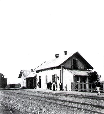 Photograph of railway station of Vertekop, Ottoman Empire (today Skydra, Greece).